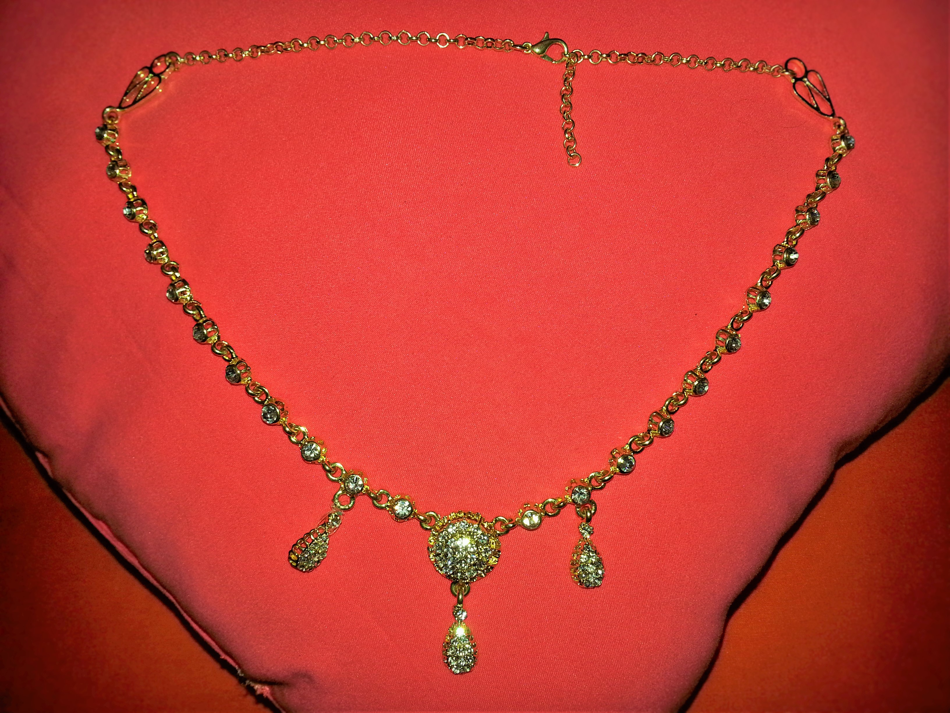 This is an image of Cultural Fashion or Adornment from Algeria